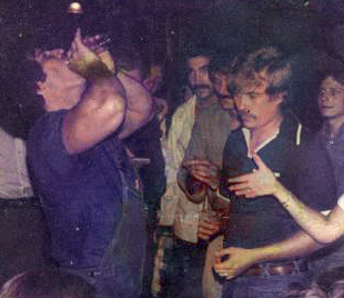 Steven Petrosino drinking 500 ml beer in 1.3 seconds in June 1977 during his successful Guinness World record attempt at the Gingerbreadman Pub in Carlisle, Pennsylvania. He established records for 0.25 l (0.137 s), and for 0.5 l (0.4 s), but Guinness published only the record for 1 litre.